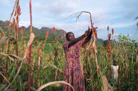 Nuba woman farming, Nuba Mountains — southern Sudan.